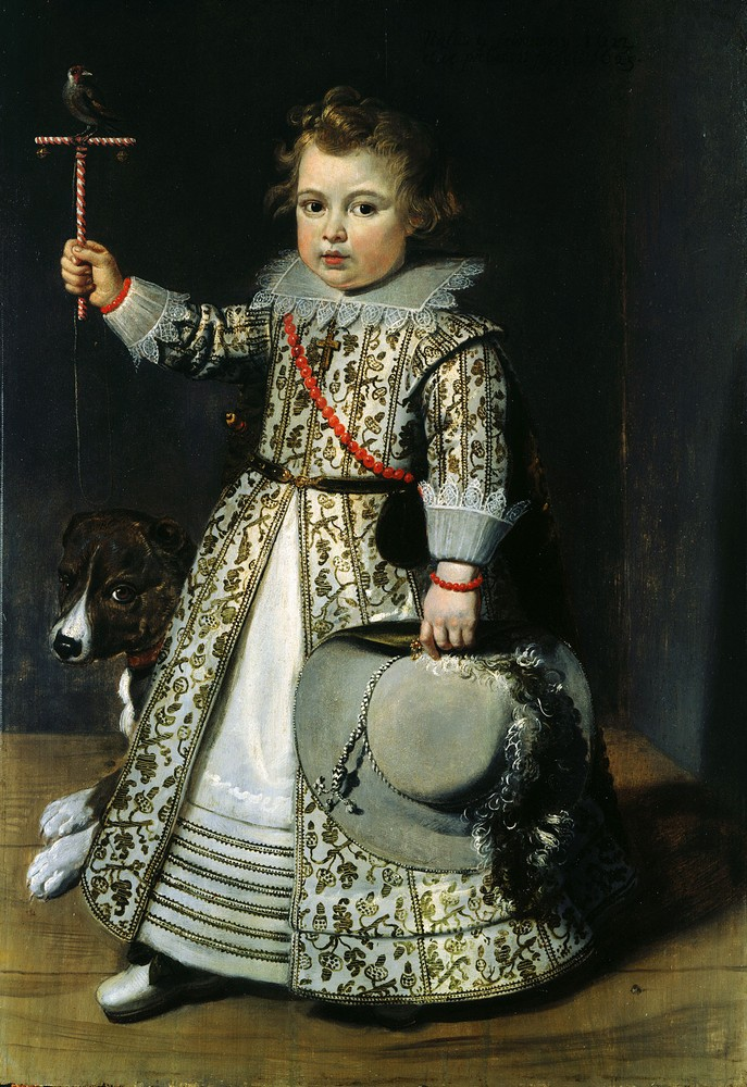 Inscribed and dated upper right: "natus 4 february 1622 et de pictus 11 Aprilis 1625" ("born 4 February 1622, painted 11. April 1625") Flemish boy of 1625 in a dress with sewn in tucks to both layers of the skirt to allow for growth. The hair and hat are distinctively masculine, and he wears a sword or dagger (left) and red coral beads, which were used for teething. - Unknown, Flemish School, fl.1620-30